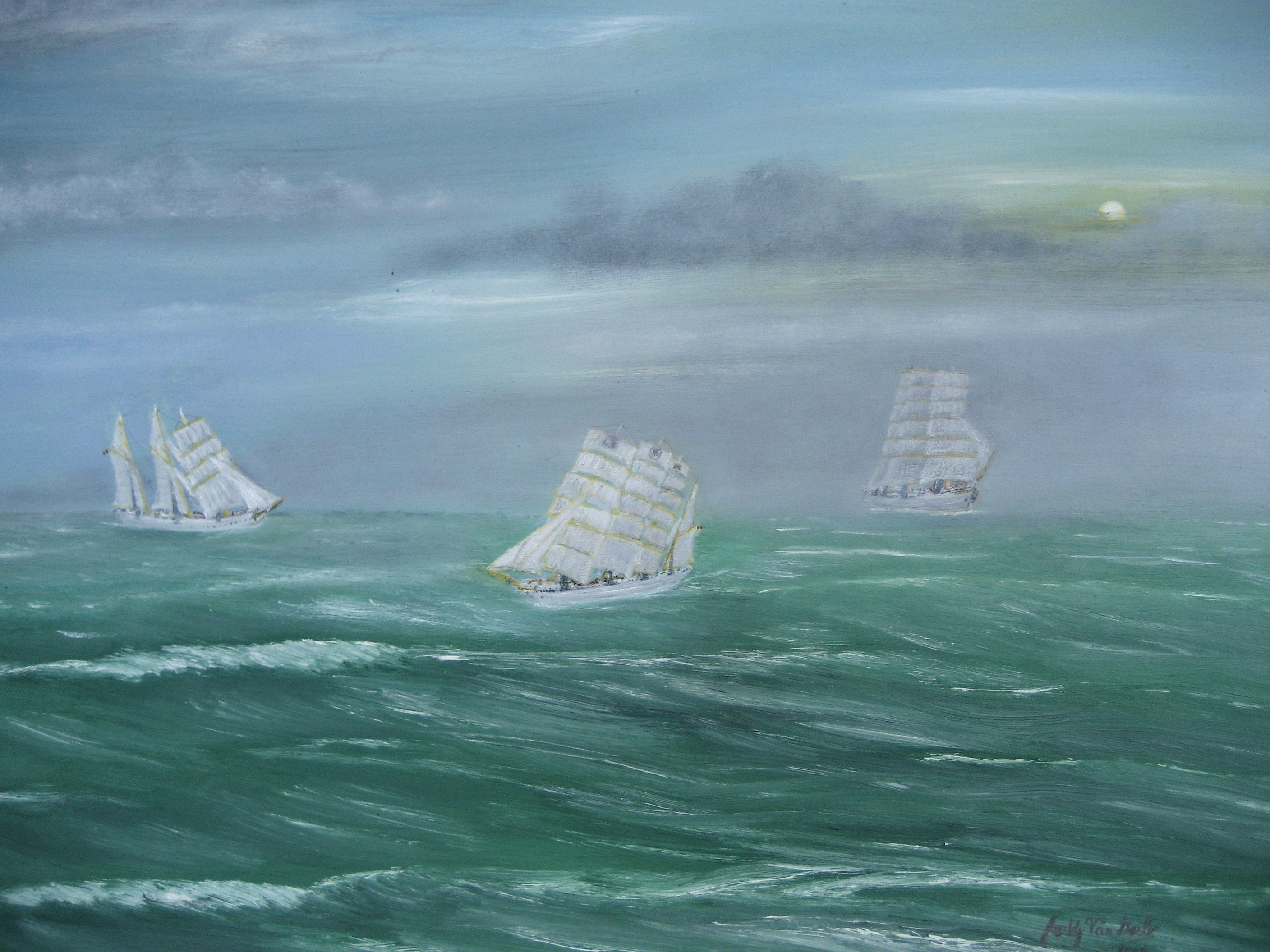 Freddy Van Daele's oil painting of 3 belgian training vessels: Mercator , Avenir and Comte de Smet de Naeyer